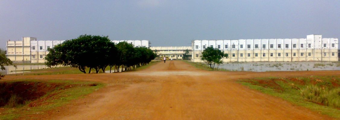 For SKIT College Article